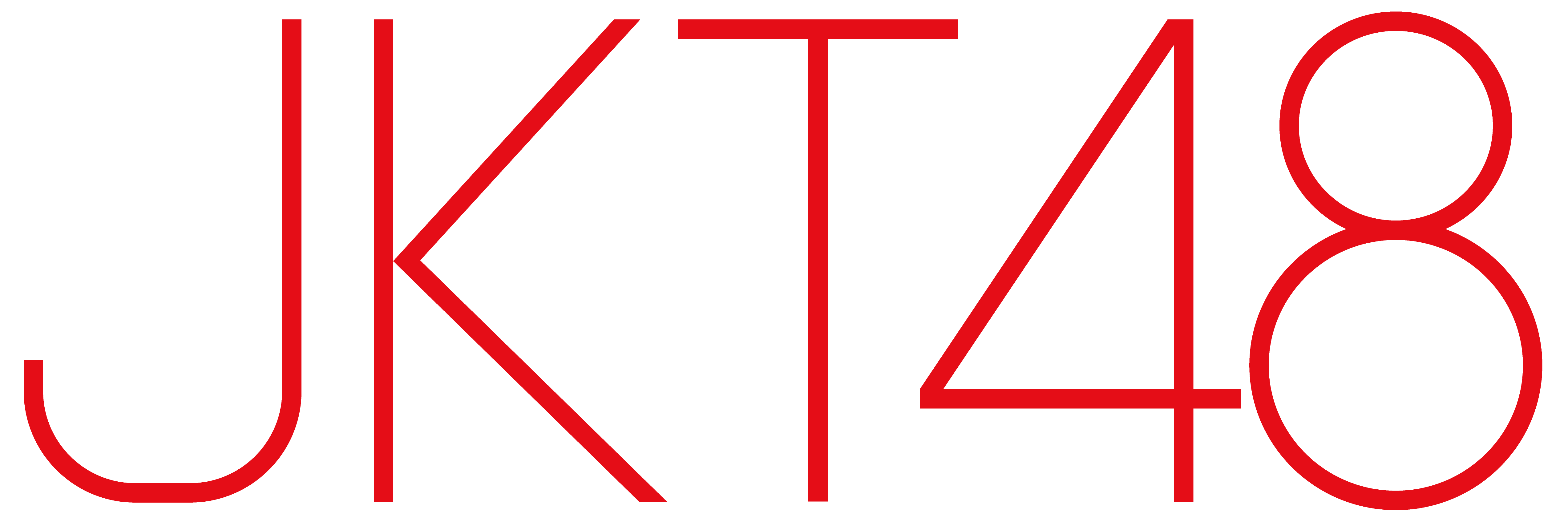 JKT48's Vector Logo